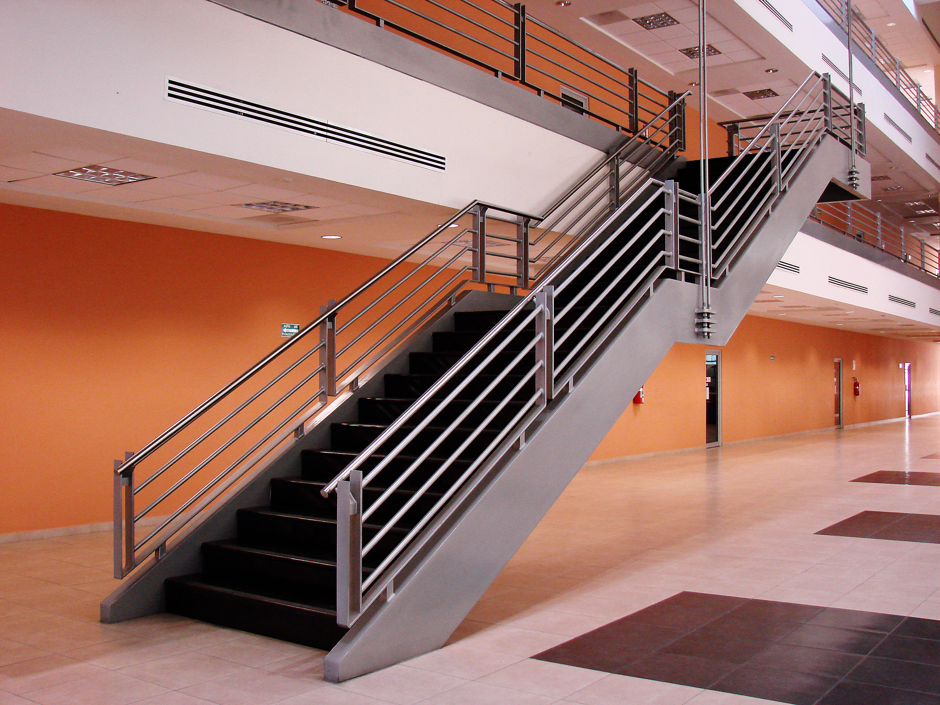 Classrooms inside the business school of the Sonora Institute of Technology.